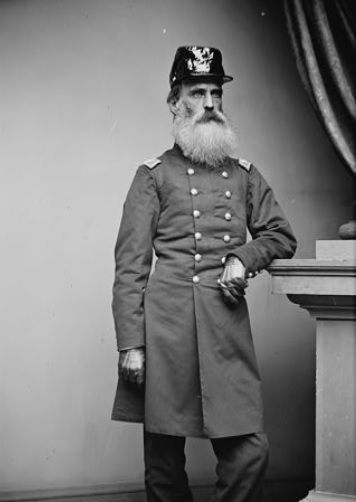 An 1870 photograph of Col. Samuel H. Starr, 5th New Jersey Infantry Regiment; later of the 6th U.S. Cavalry Regiment. A white male army cavalry officer with a long full white beard age 55ish in full military uniform wearing an older style dragoon headwear.